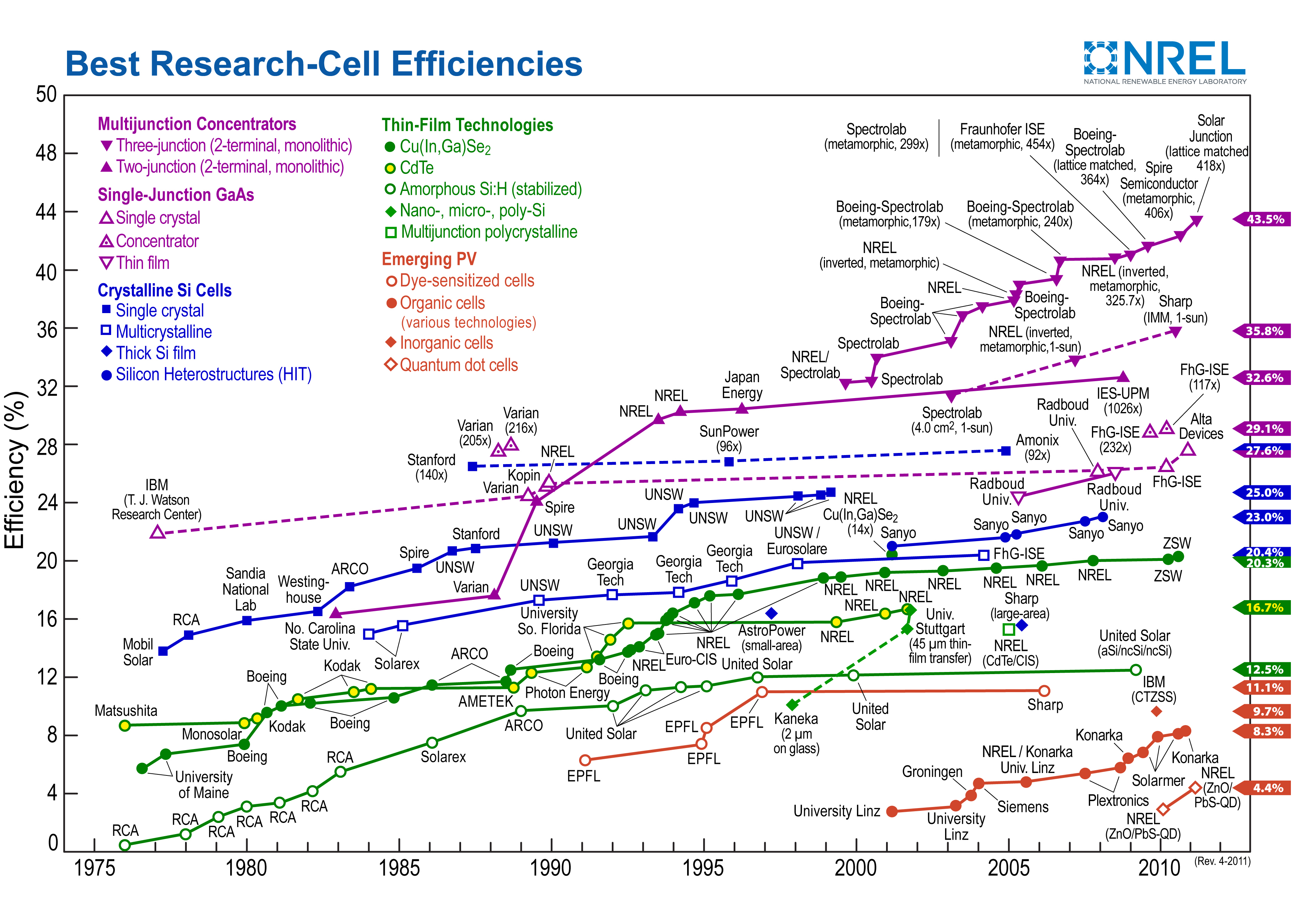 NREL compilation of best research solar cell efficiencies.